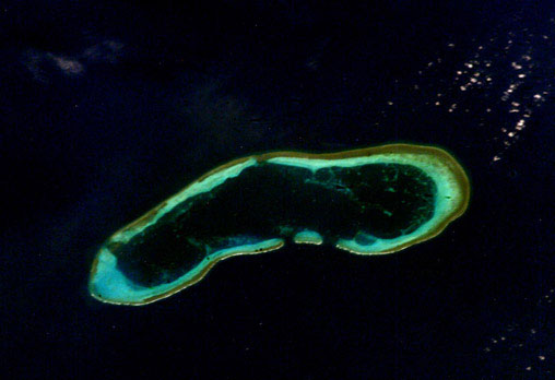 Discovery Reef, Paracel Islands. Photo number: ISS011-E-7712. Image courtesy of the Image Science & Analysis Laboratory, NASA Johnson Space Center